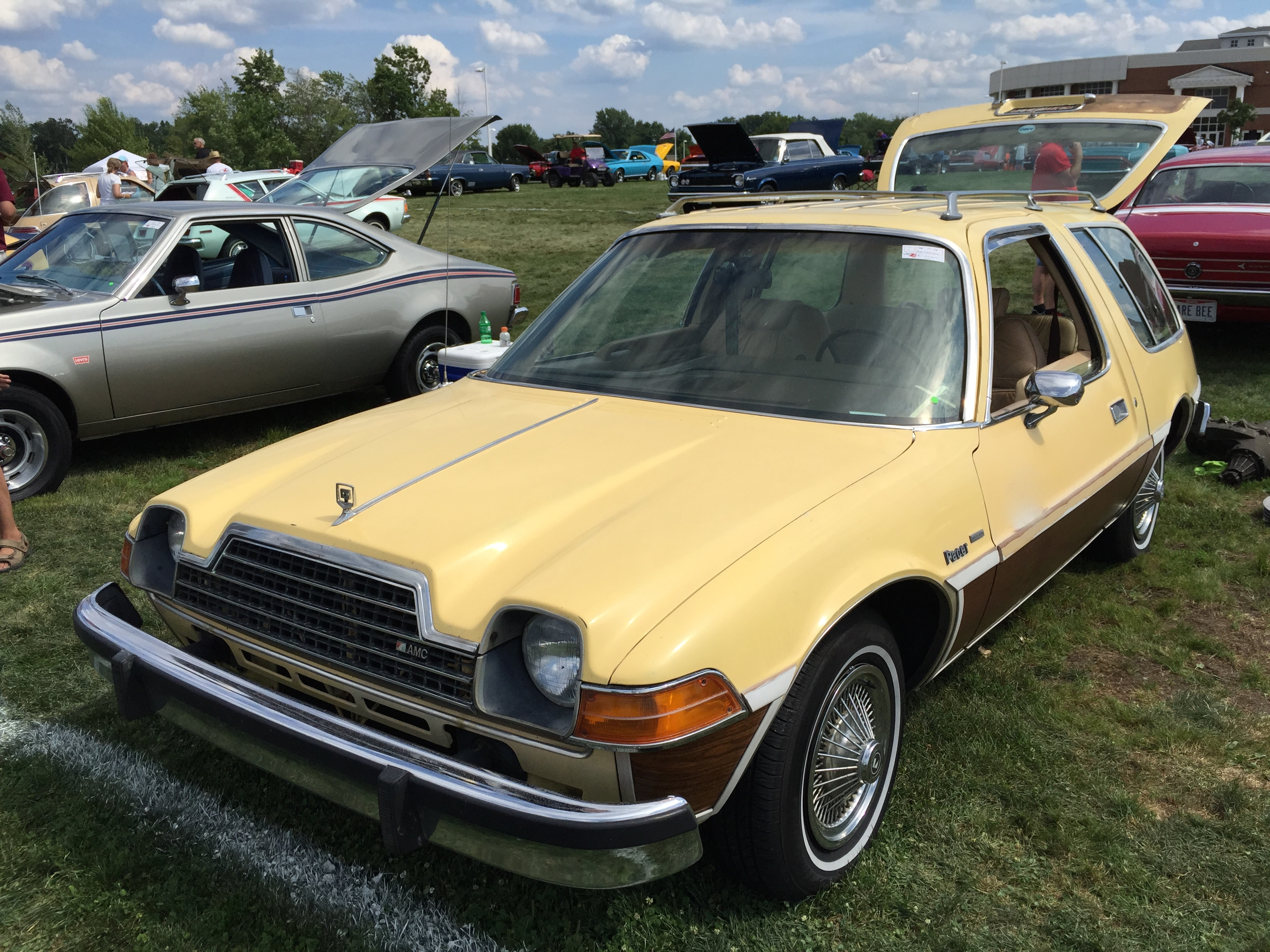 1980 AMC Pacer Limited wagon, an innovative compact-sized car built by American Motors Corporation (AMC). This station wagon features the top-of-line "Limited" trim together with the optional simulated woodgrain exterior treatment. The Limited included numerous standard features such as power windows, power door locks, woodgrain steering wheel, tilt steering wheel, dual remote mirrors, individual reclining front seats with folding center armrest, "Chelsea" leather upholstery (note the "floating" pillow design, full 18-oz carpeting, floor mats, wire wheel covers, and many others such as light group, intermittent wipers, and power steering. All 1980 Pacers (the last year of production) were powered by AMC's 4.2 L (258 cid) straight six-cylinder engine. Picture taken during the American Motors Owners Association (AMO) annual convention that was held July 2015 near Cleveland, Ohio.